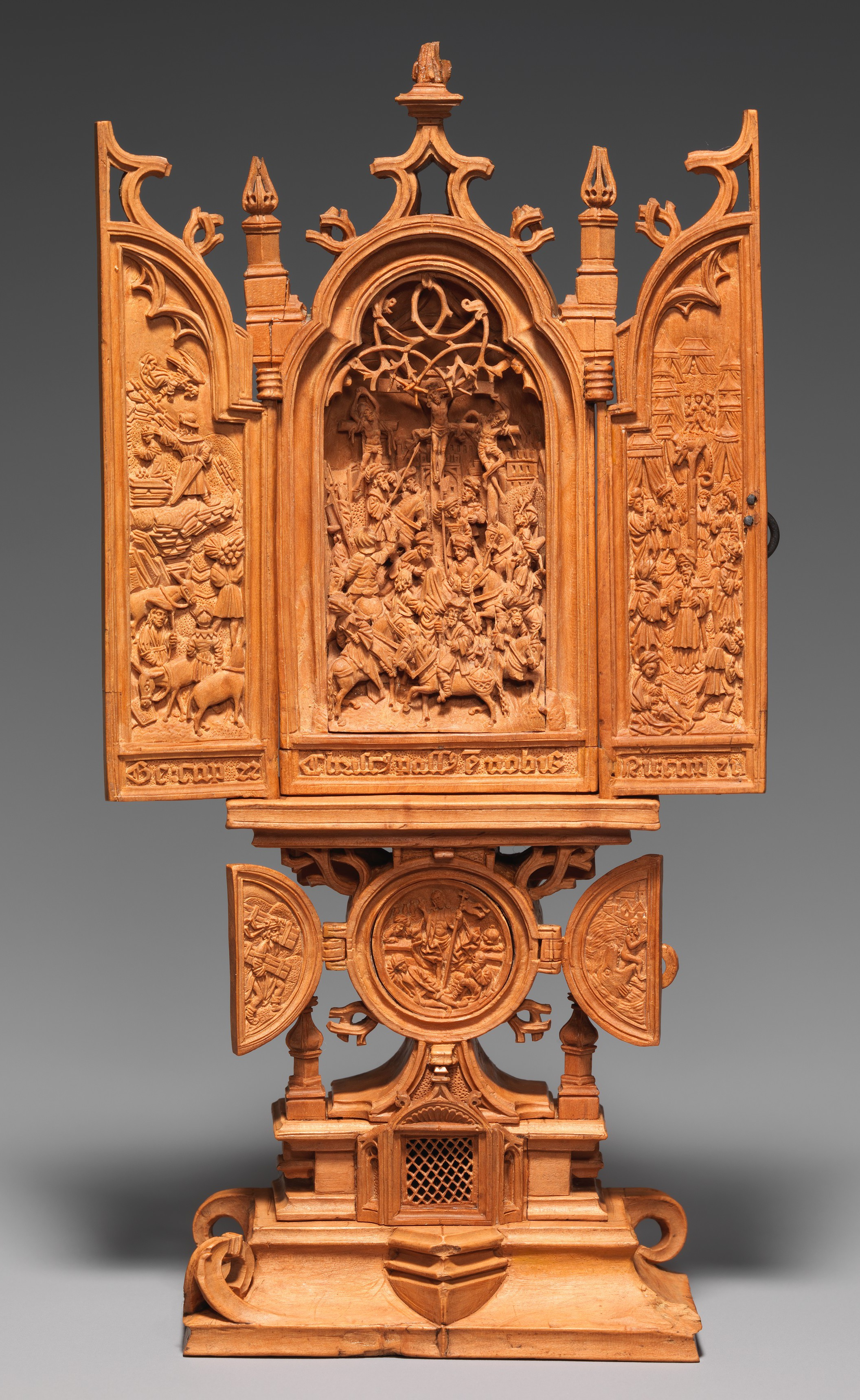 Miniature Altarpiece with the Crucifixion. Boxwood, Sculpture-Miniature-Wood.Gift of J. Pierpont Morgan, 1917